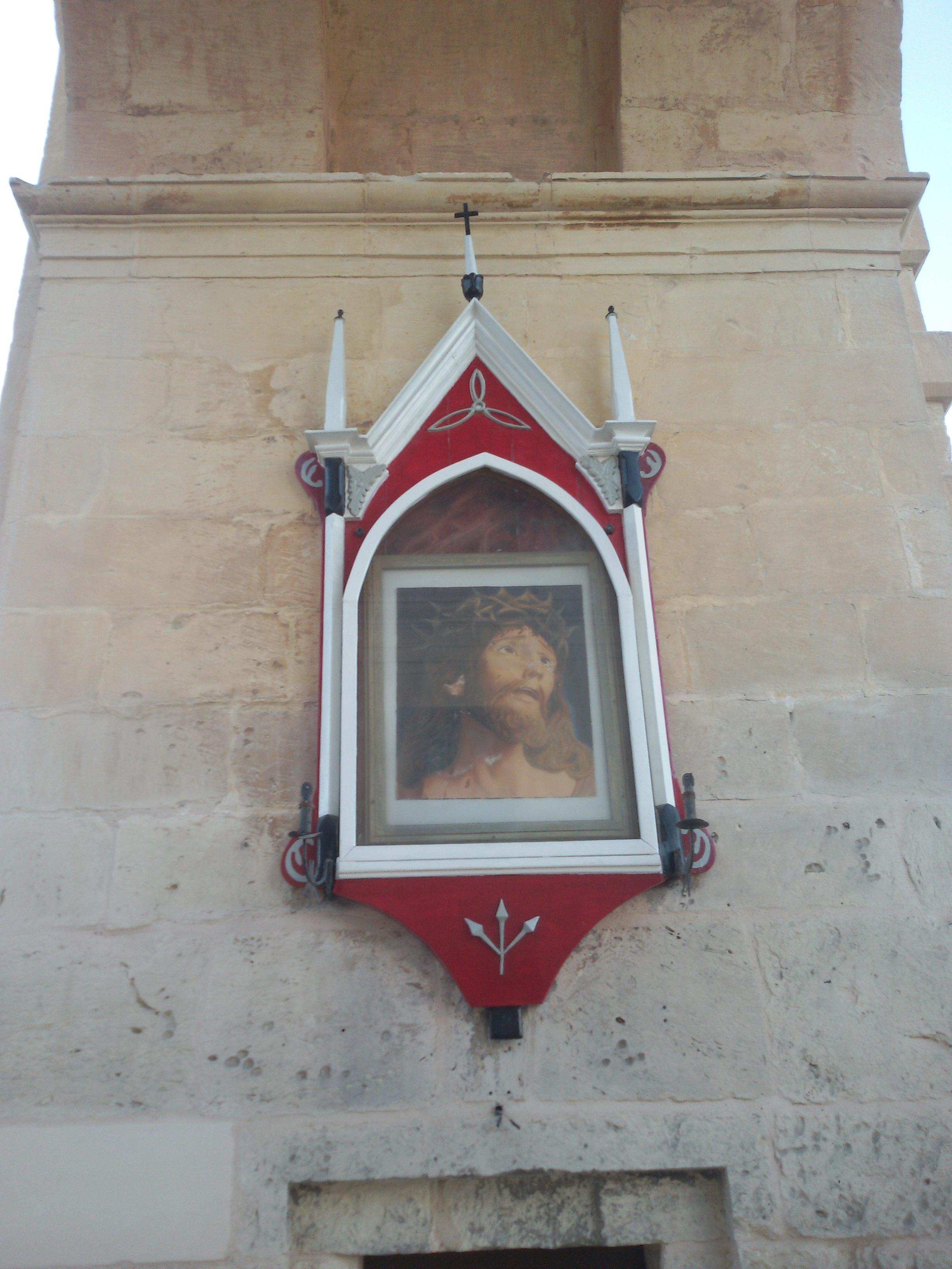 Niche of the Ecce Homo This media is about Maltese cultural property with inventory number 02231.